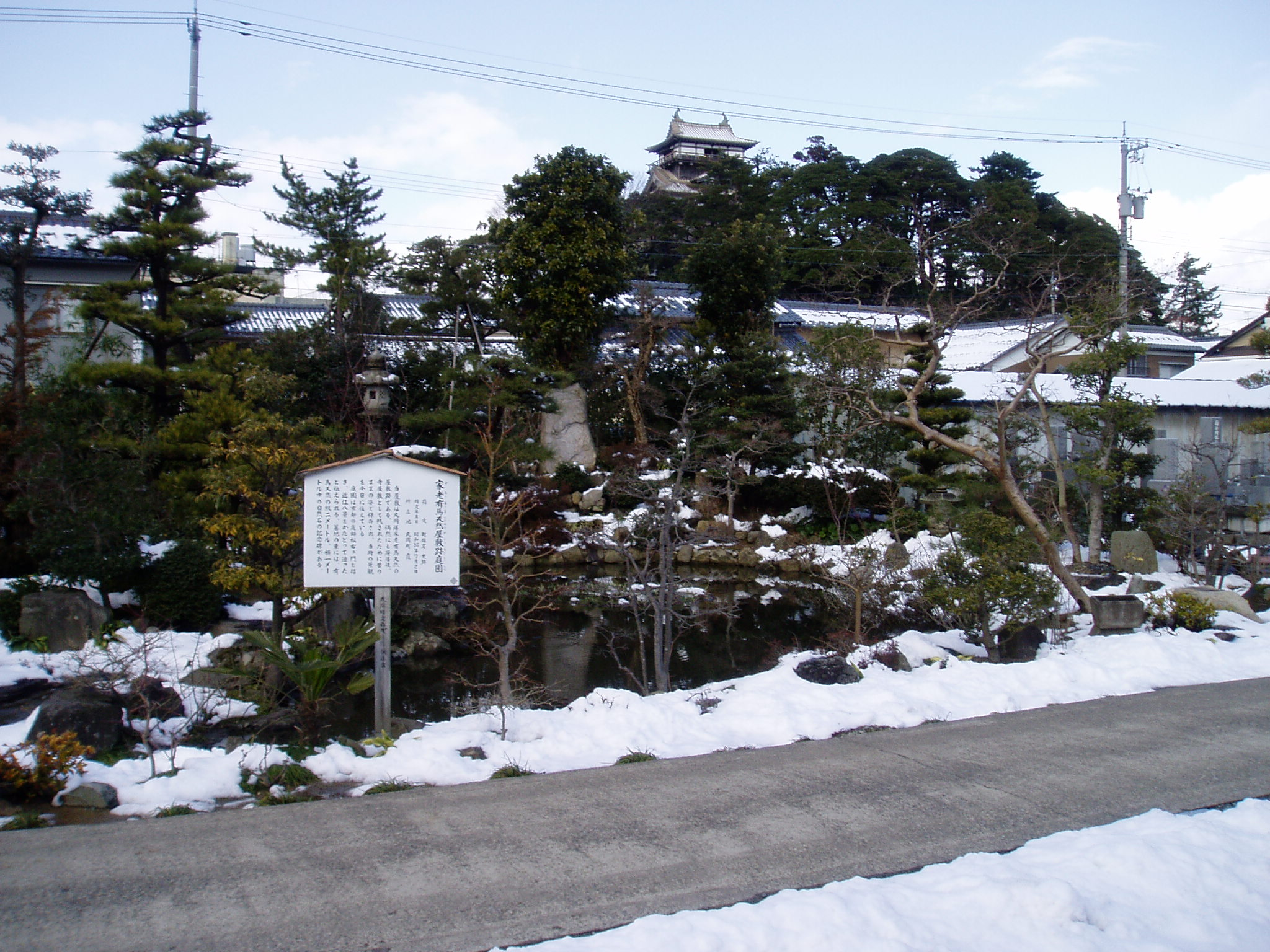 Residential Garden of a retainer of Maruoka Domain, Arima Tennen (丸岡藩家老有馬天然屋敷跡庭園) in Maruoka, Sakai, Fukui prefecture, Japan.